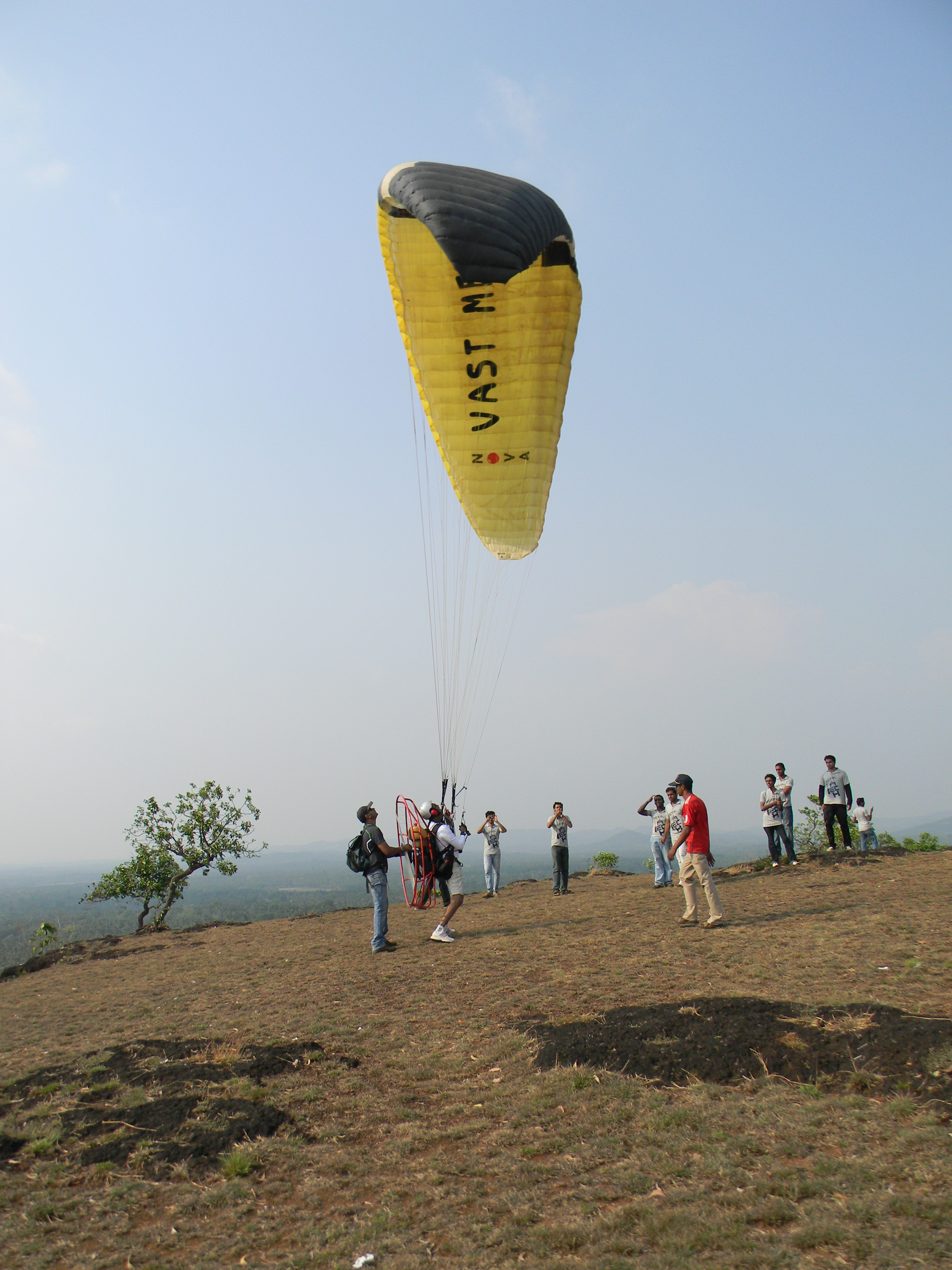 Takeoff